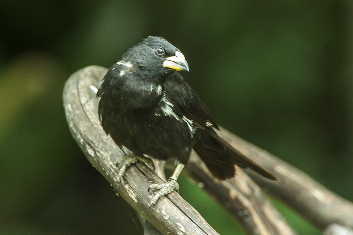 White-billed Buffalo-Weaver - Baringo - Kenya_NH8O0246